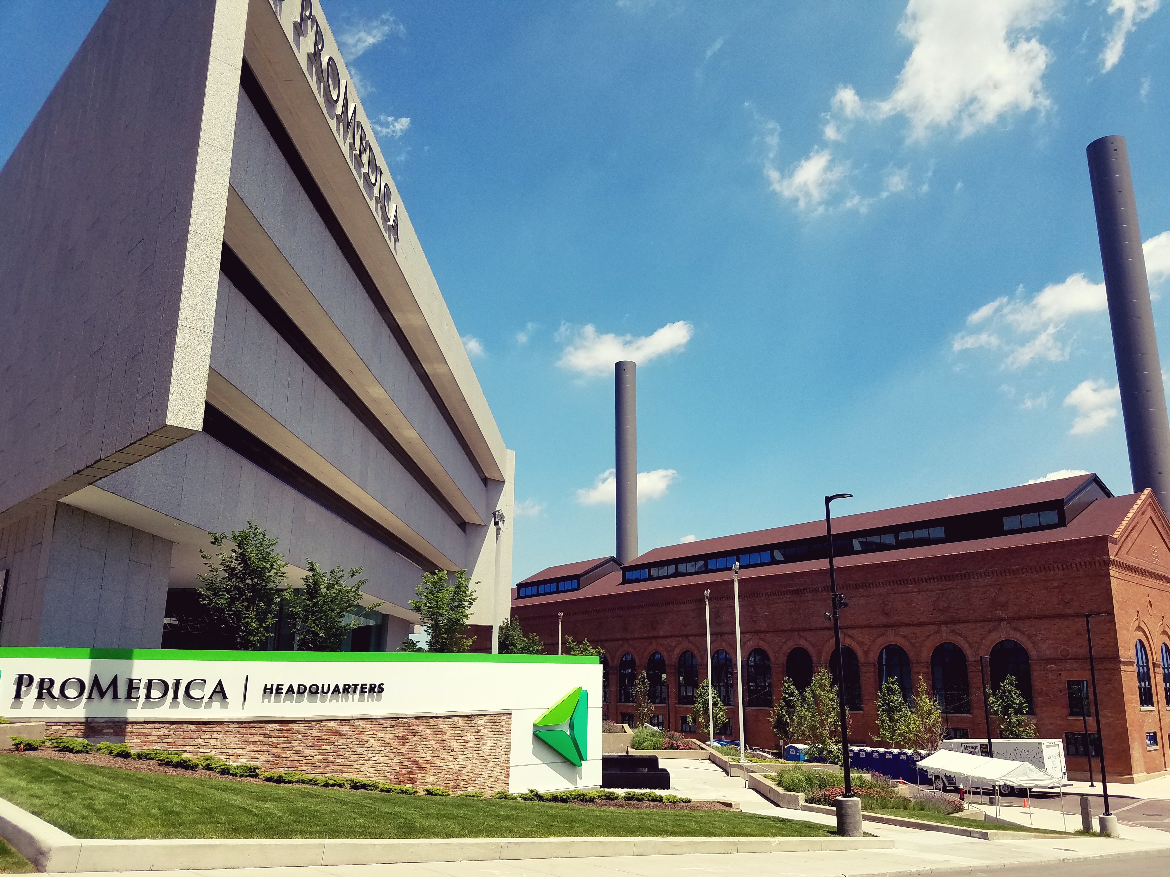 Toledo - Promedica Downtown Campus (OHPTC)